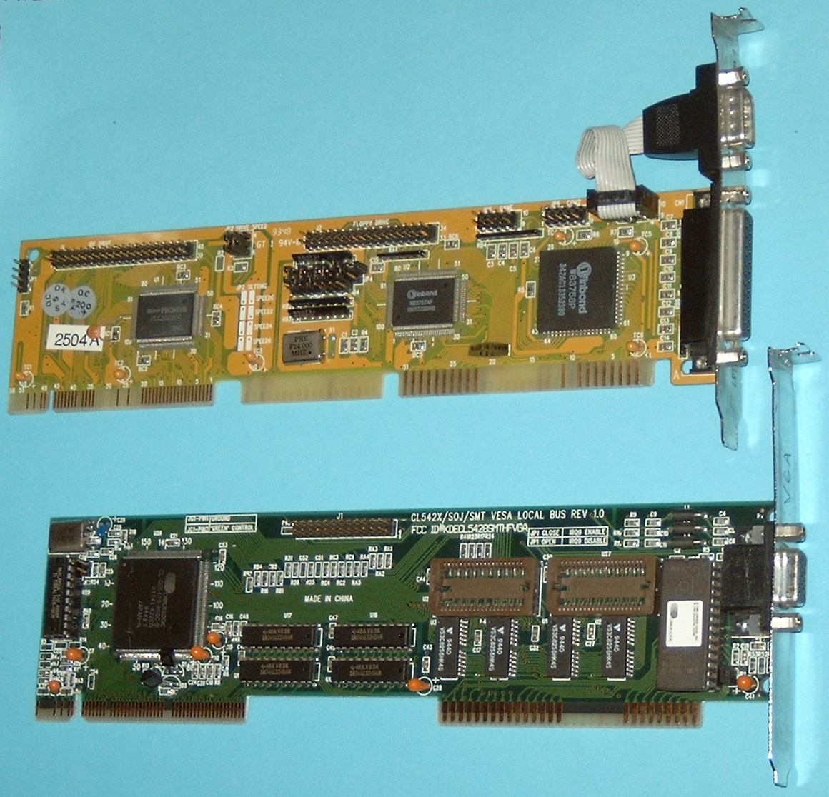 VLB expansion cards "Promise DC-2000C" I/O-controller 1×IDE/FDD/parallel/2×RS232/game (top), "CL542X/SOJ/SMT" VGA graphics card (bottom)